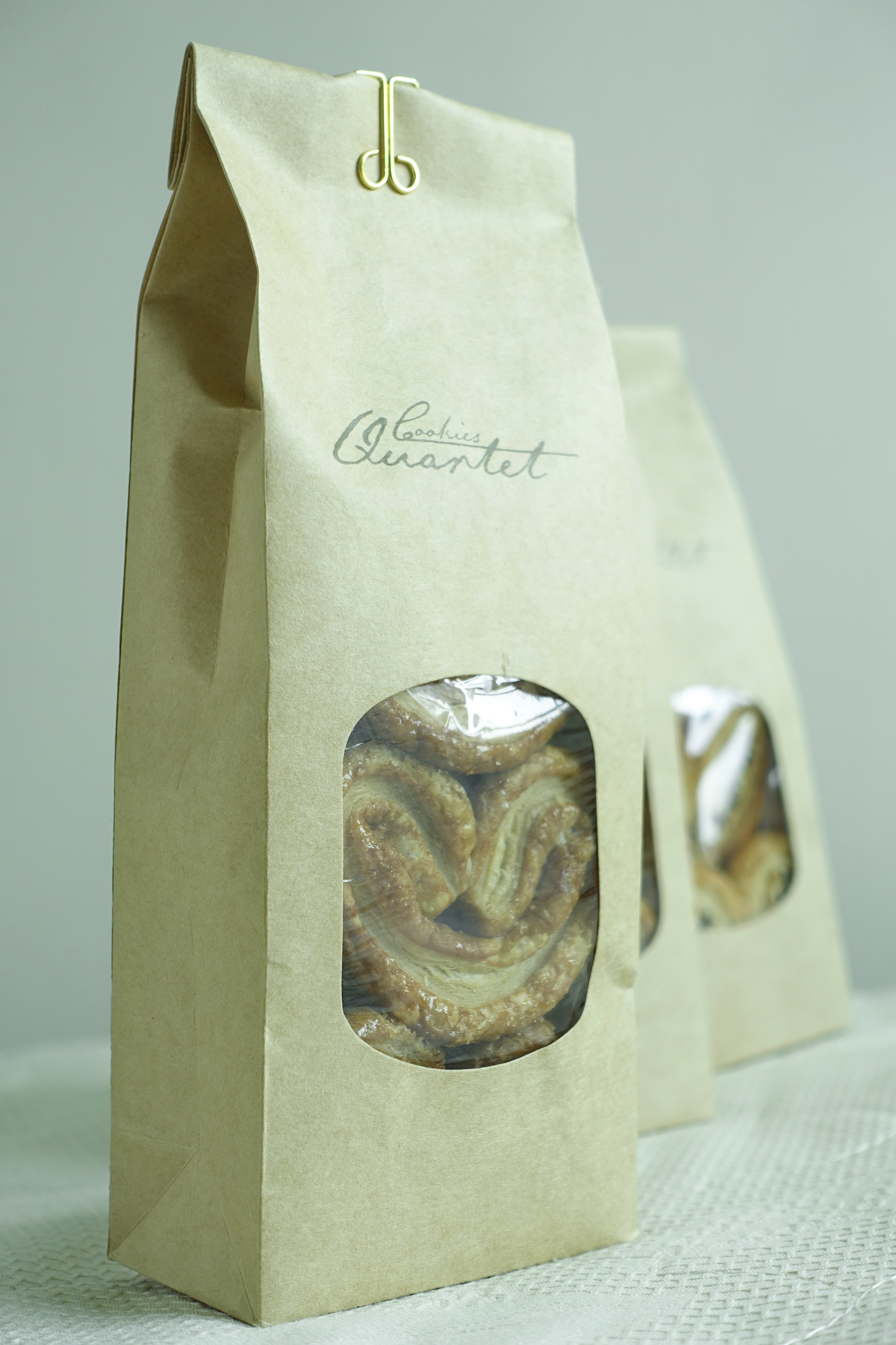 Cookies Quartet, Palmier